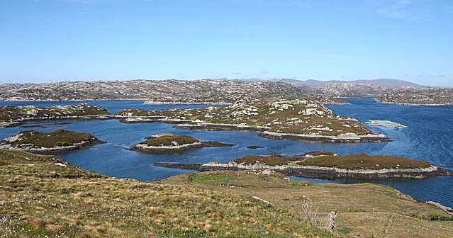 Loch Laxford Islands from Cnoc Druim na Coille The largest island is Eilean a'Mhadaidh 'Island of the Fox' and closer to the shore are Eilean Dubh an Teoir to the left and Eilean na Carraig 'Island of the Headland', the elongated one on the right.